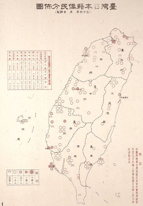 around 320 thousand Japanese and only 30 thousand allowed stayed in Taiwan 僅三萬教育和技術人員獲准留臺高雄市立歷史博物館